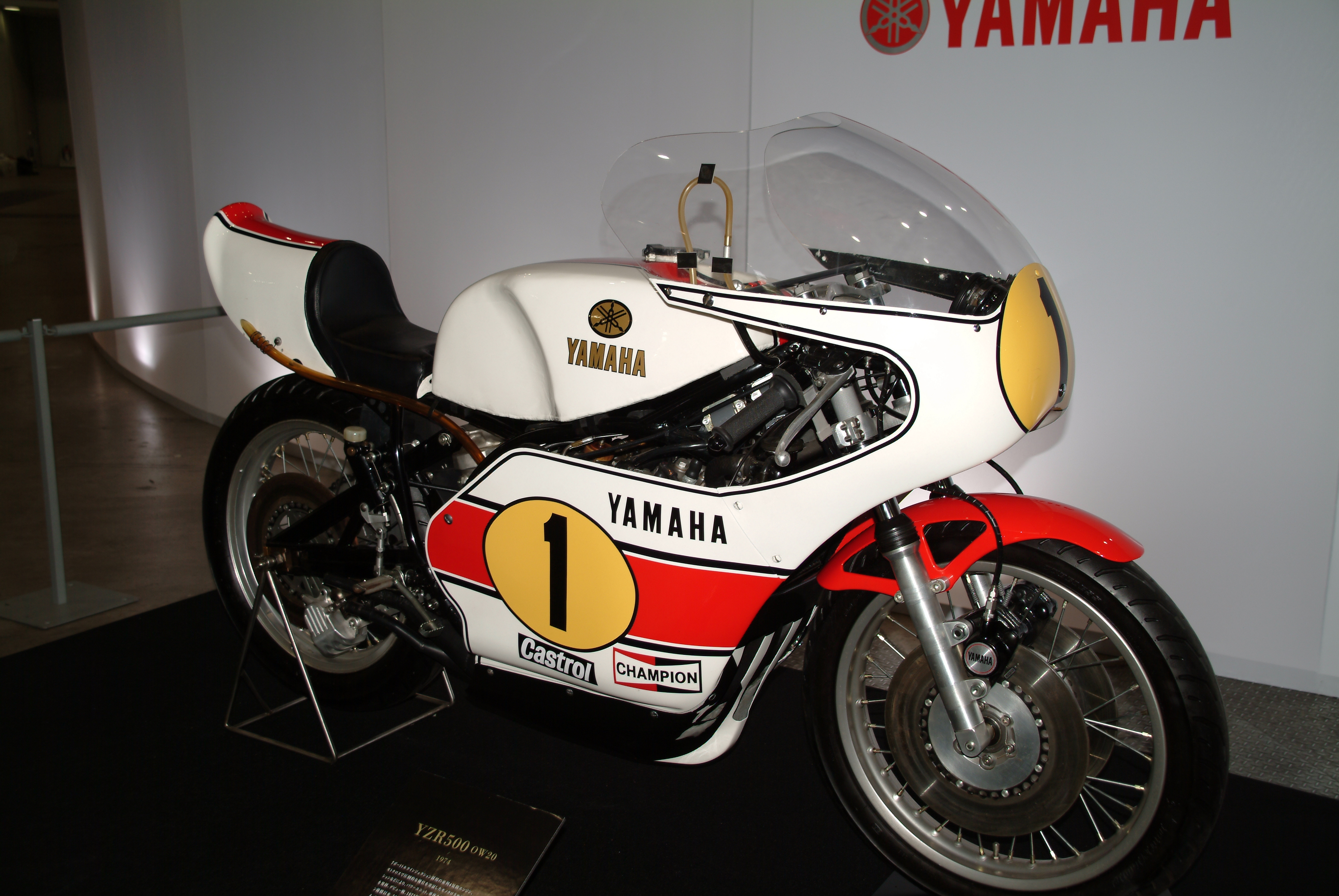 YAMAHA YZR500(OW20),at TOKYO PREMIUM MOTORCYCLE SHOW